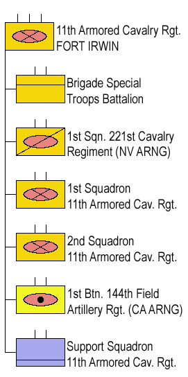 Structure US Army 11th Armored Cavalry Regiment